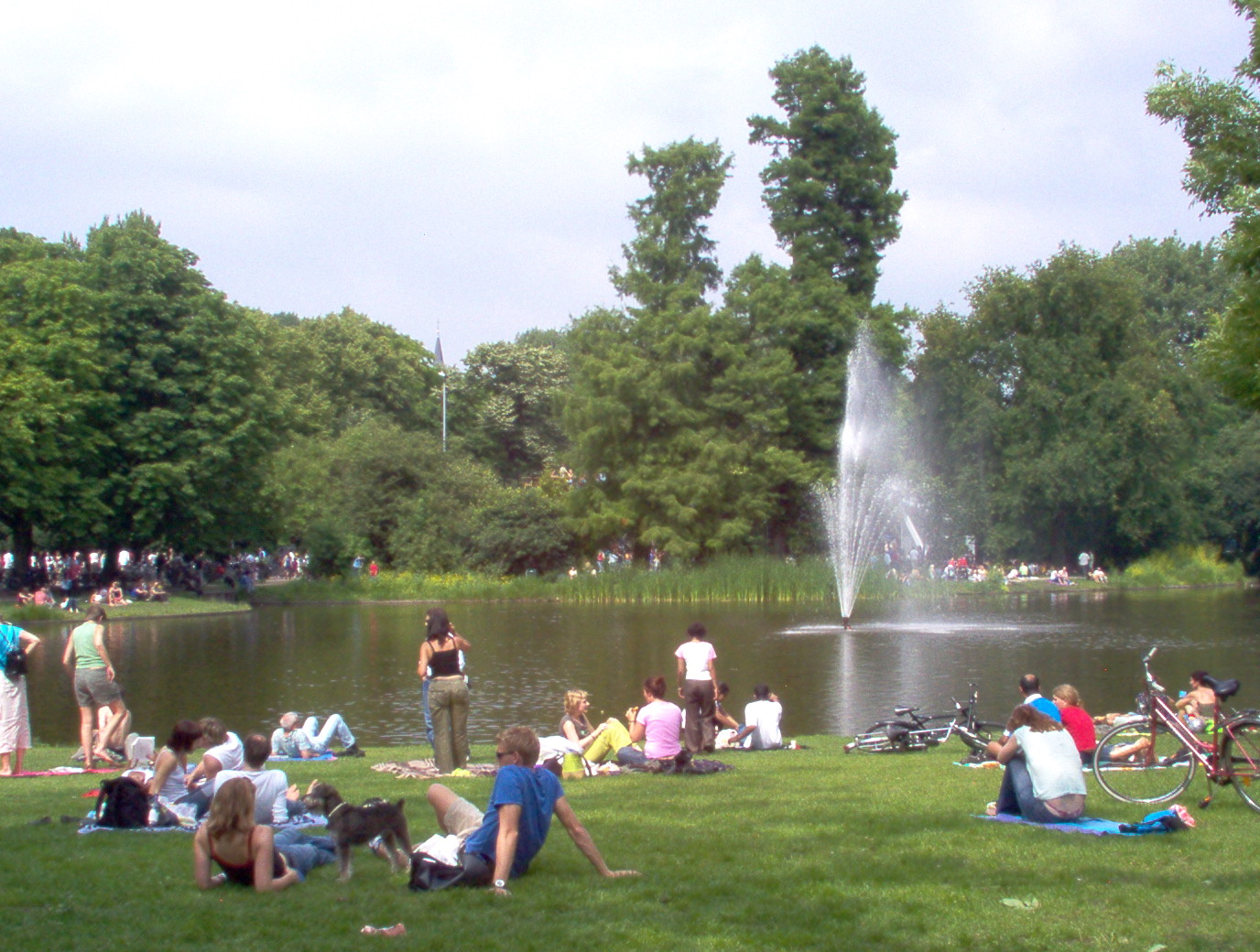 Vondelpark On A Sunny Day